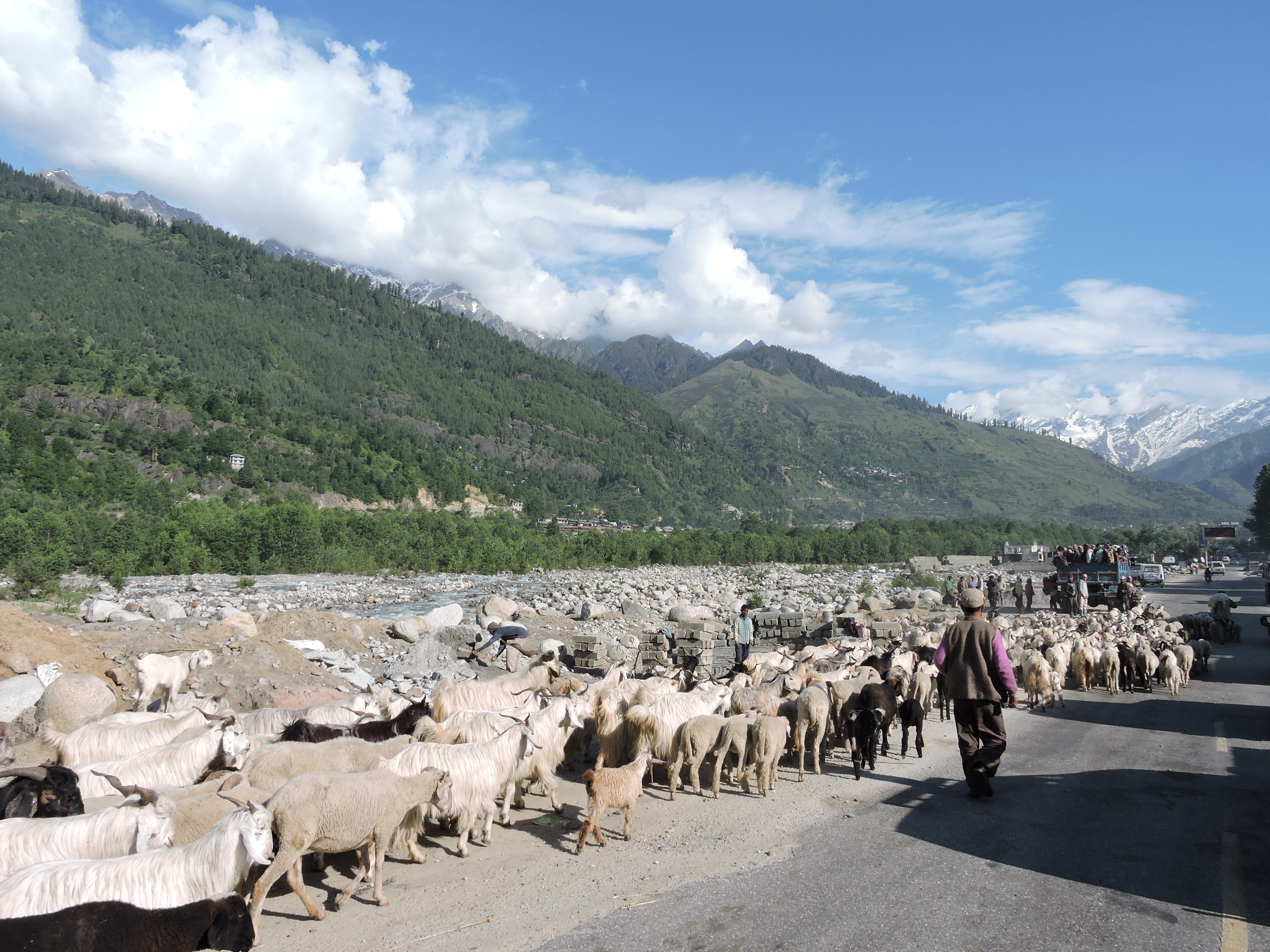 Bakarwal's herd of goats and sheep on Manali - Leh National Highway moving towards Rohtang Pass